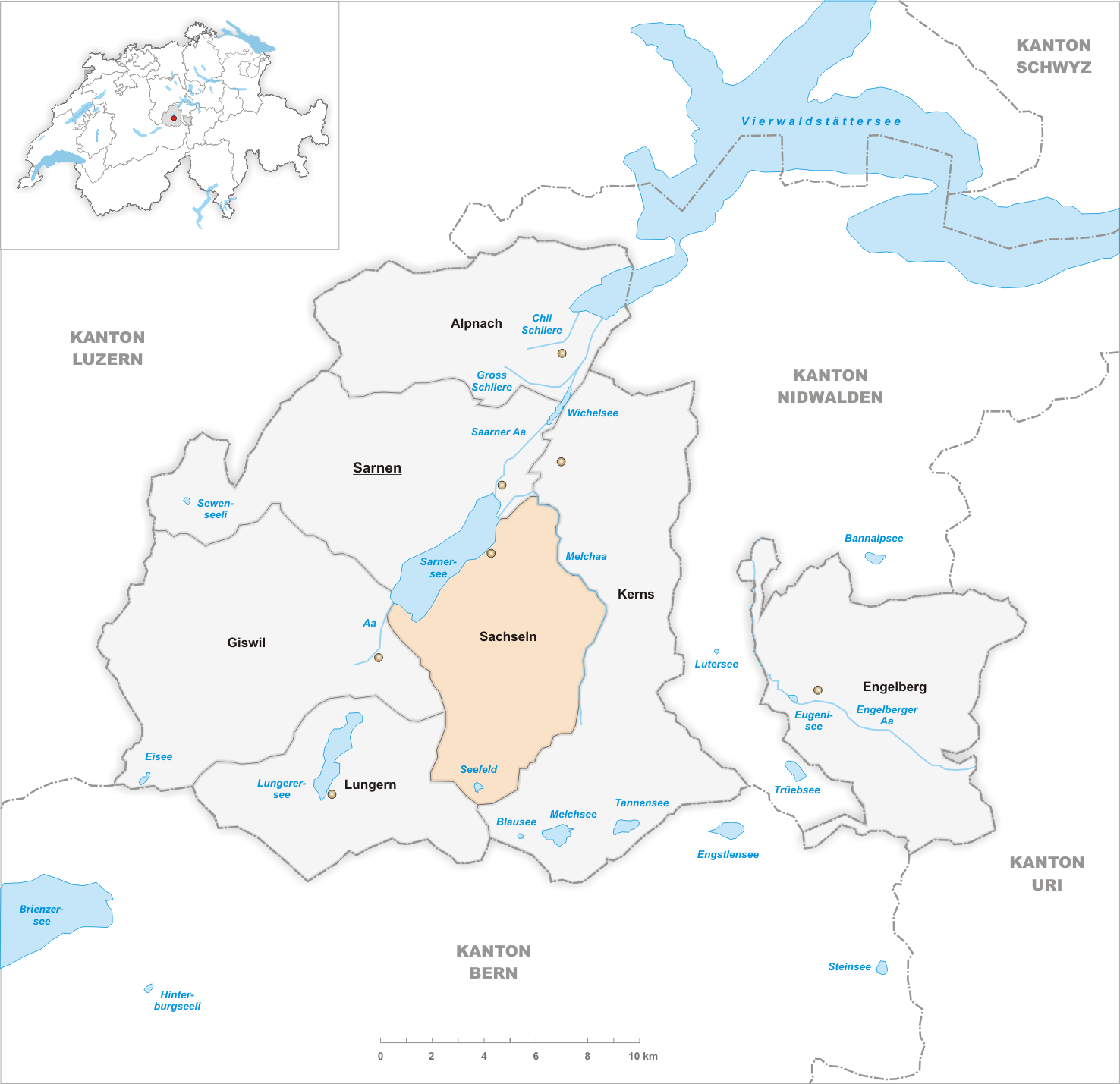 Municipality Sachseln